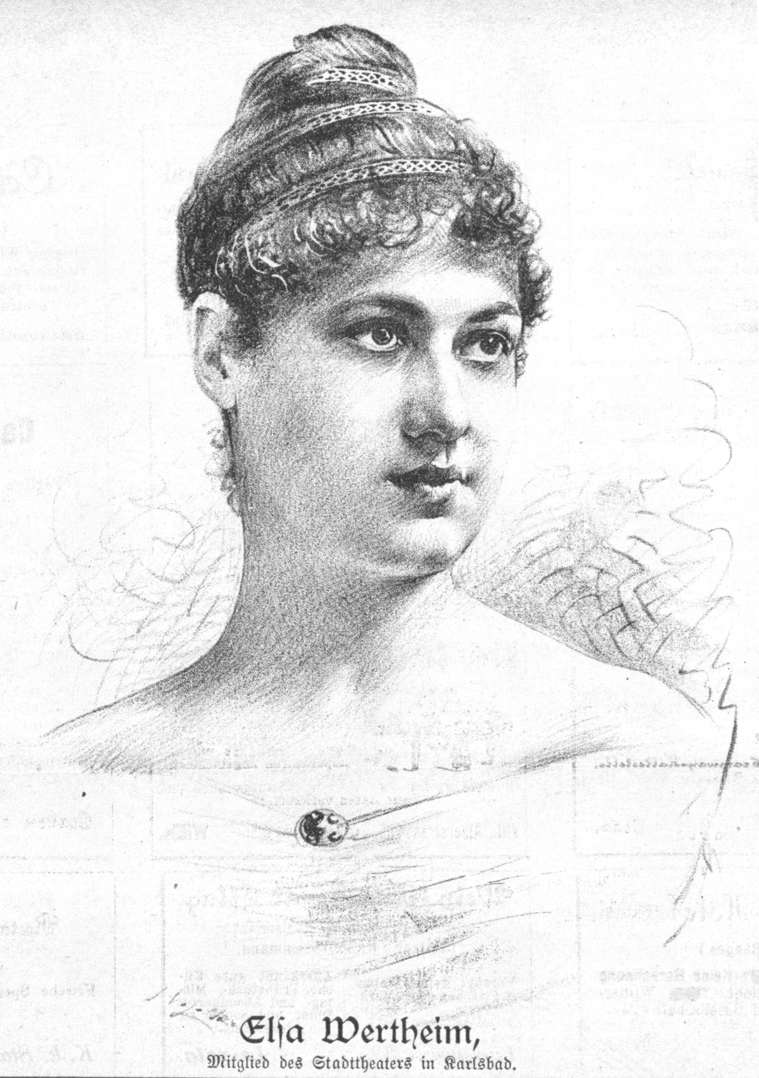 Portrait of Elsa Wertheim (1874-1944), Austrian actress.